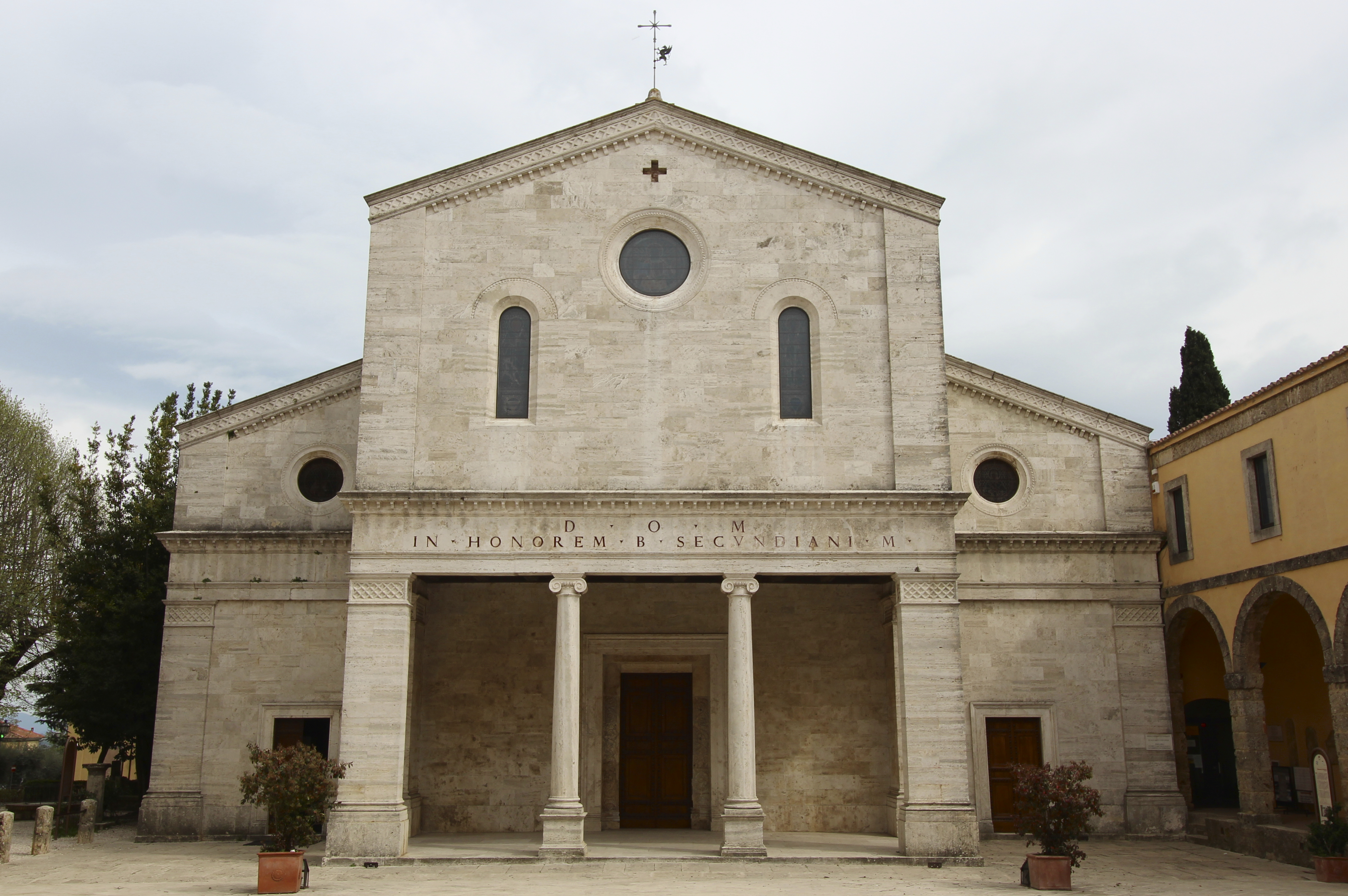 Church San Secondiano (Duomo di Chiusi), Chiusi, Province of Siena, Tuscany, Italy